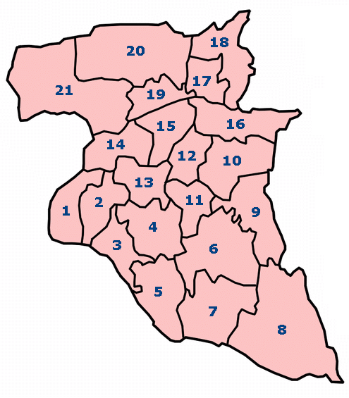 Jombang county, East Java province, Indonesia